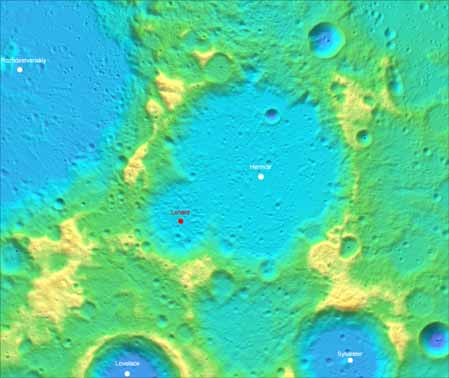 LROC topographic (false colour).